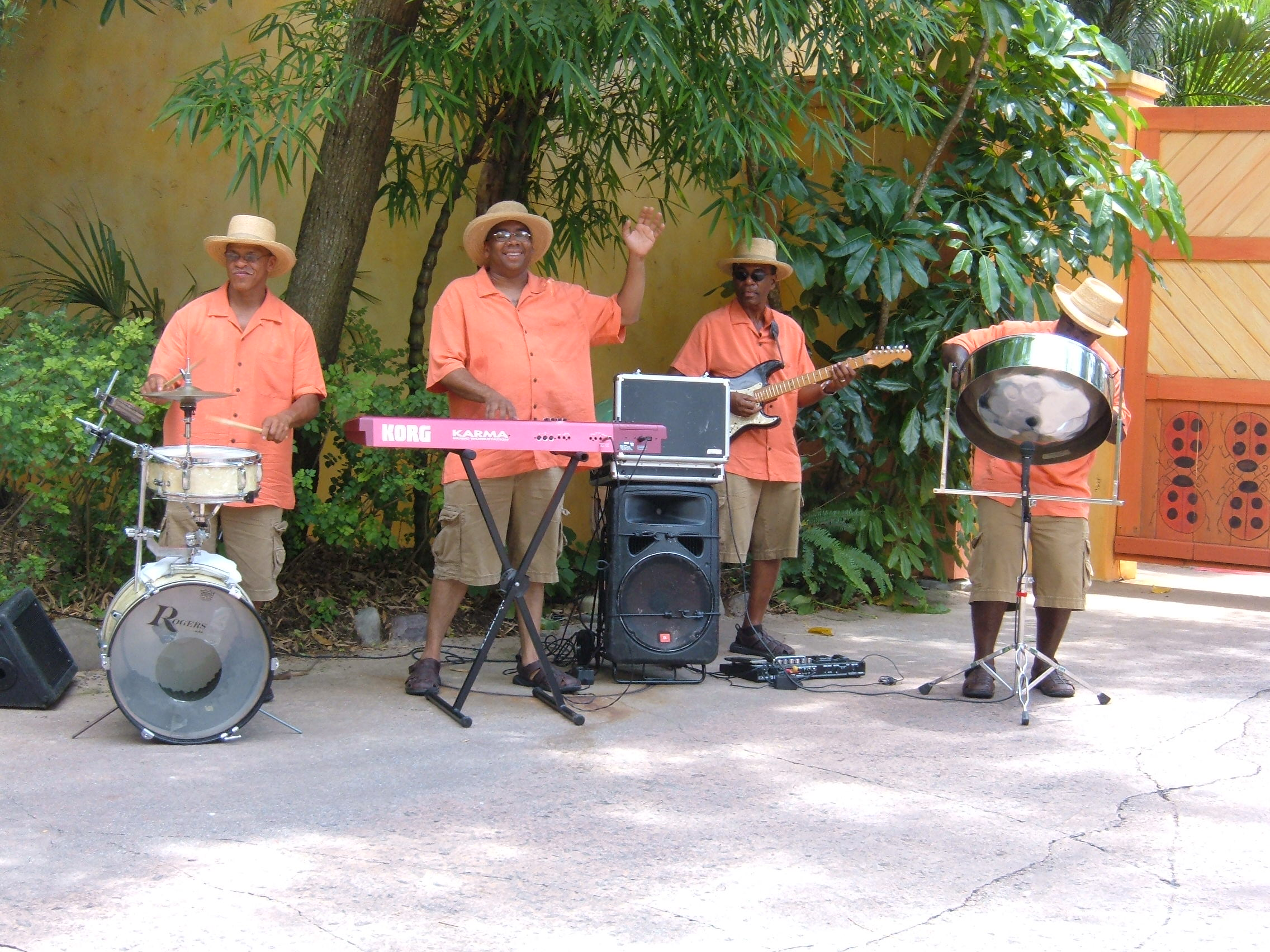 A steel drum band at Disney's Animal Kingdom at the Walt Disney World Resort near Orlando, Florida.